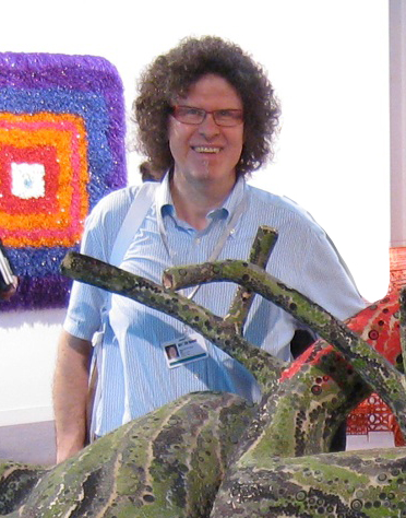 Fiorenzo Barindelli